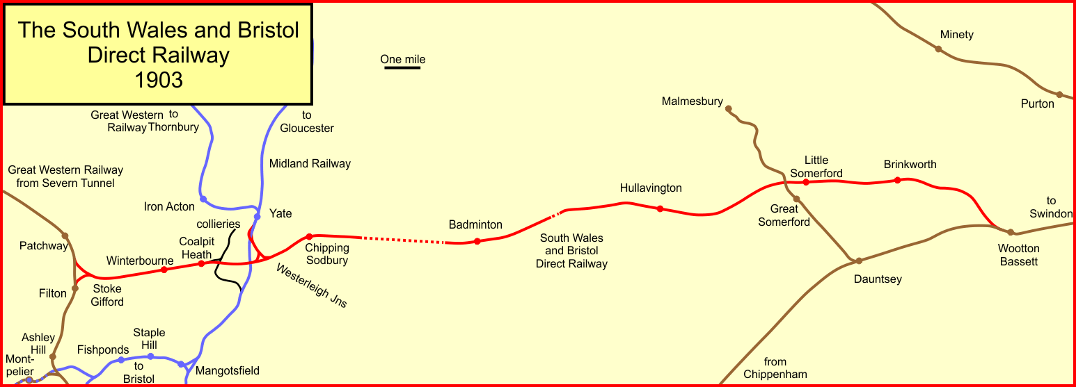 Map of the South Wales and Bristol Direct Railway (the Badminton Line) in 1903